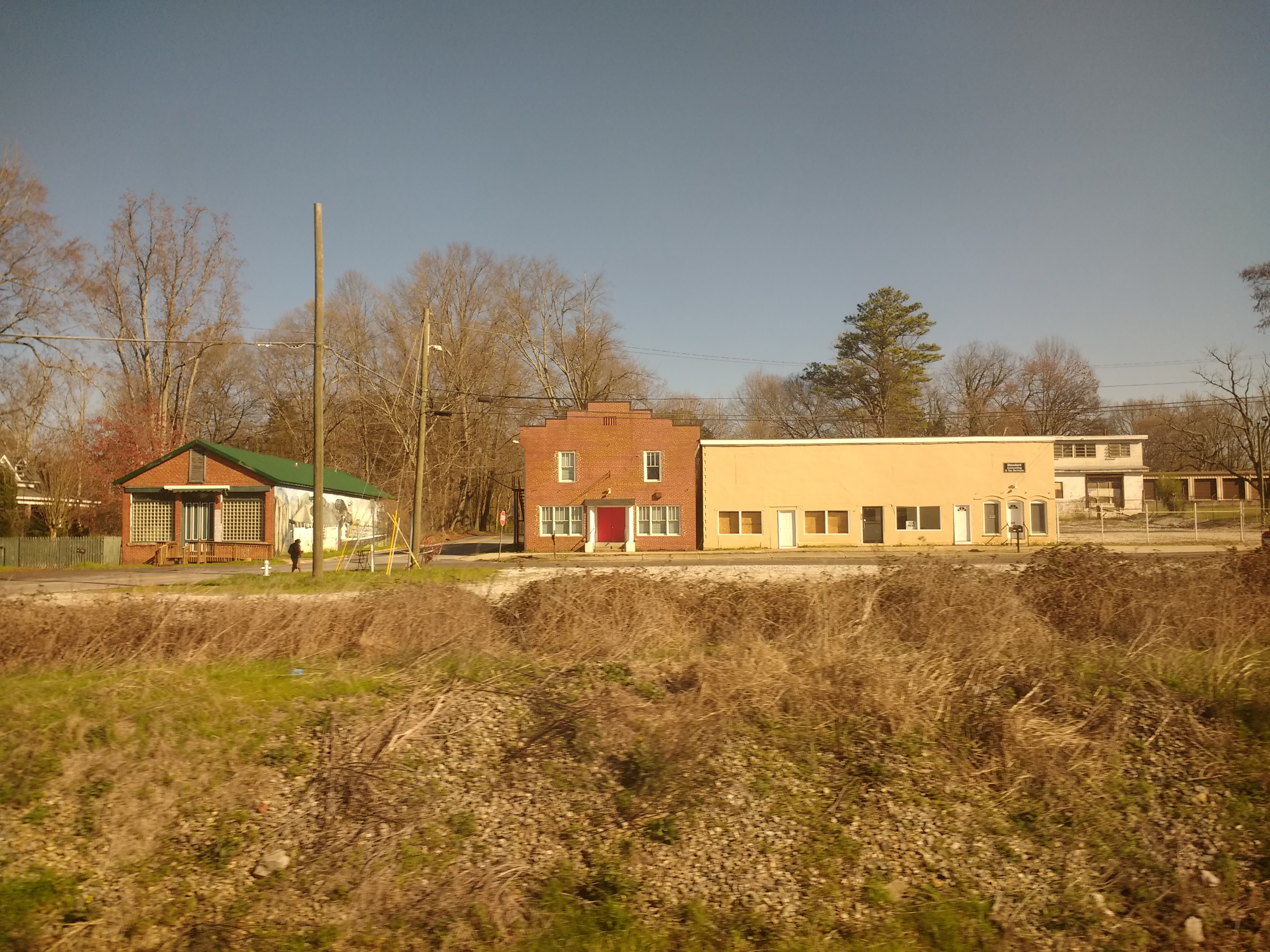 Buildings in Mableton, Georgia.